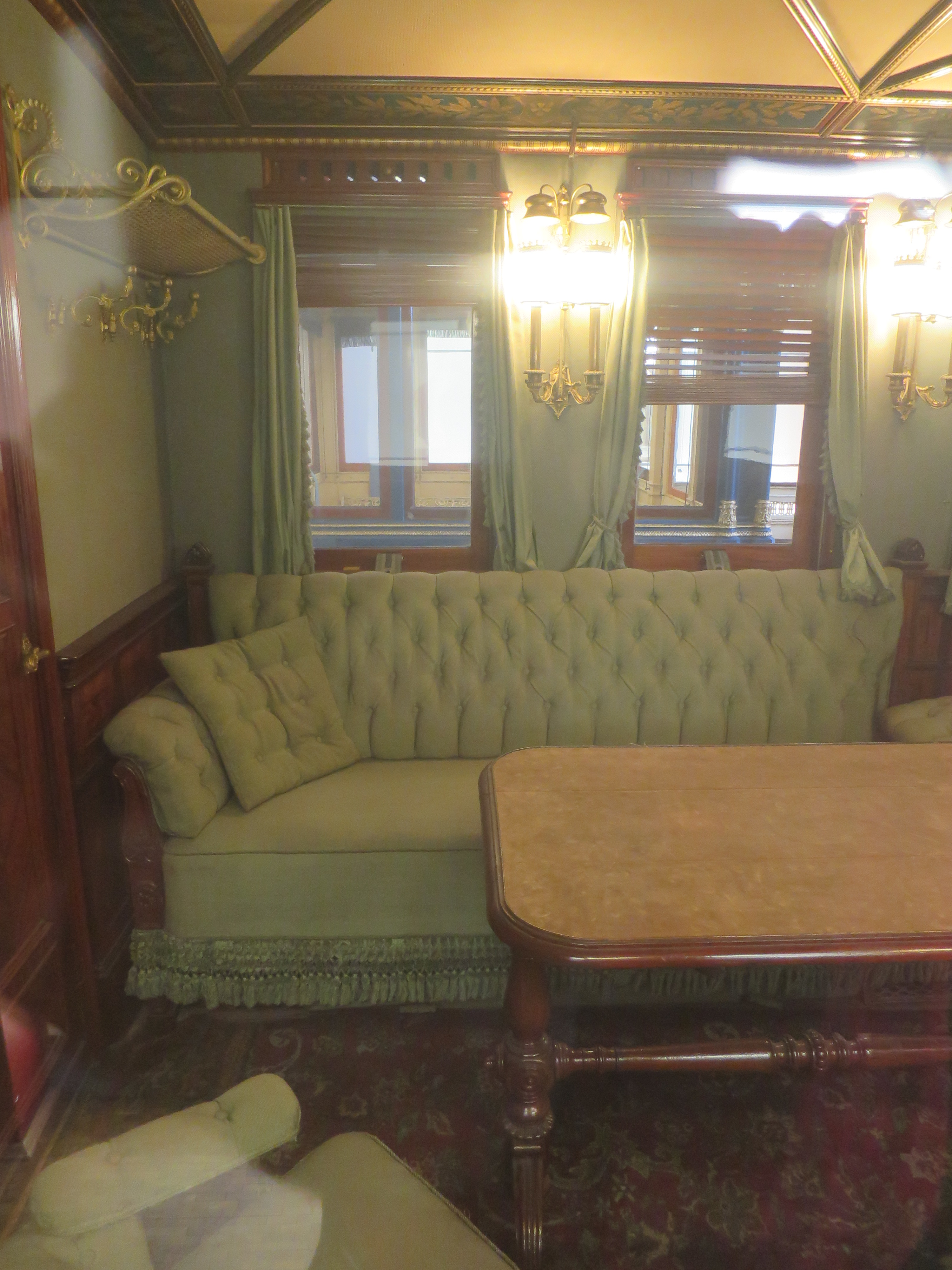 Saloon of Otto von Bismarck